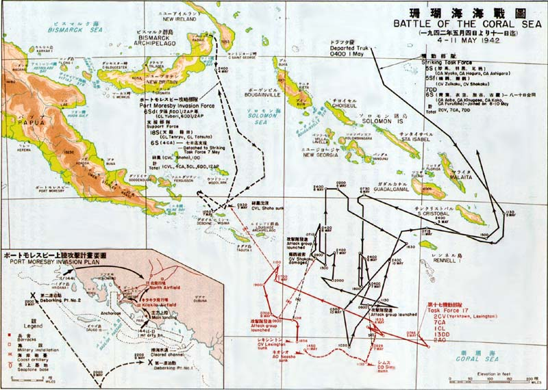 Battle of the Coral Sea, 4-11 May 1942